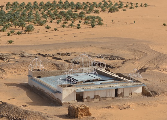 Based on